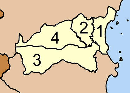 Map of Thung Tako district, Chumphon province, with the communes (tambon) numbered Pak Tako (ปากตะโก) Thung Ta Khrai (ทุ่งตะไคร) Tako (ตะโก) Chong Mai Kaeo (ช่องไม้แก้ว)